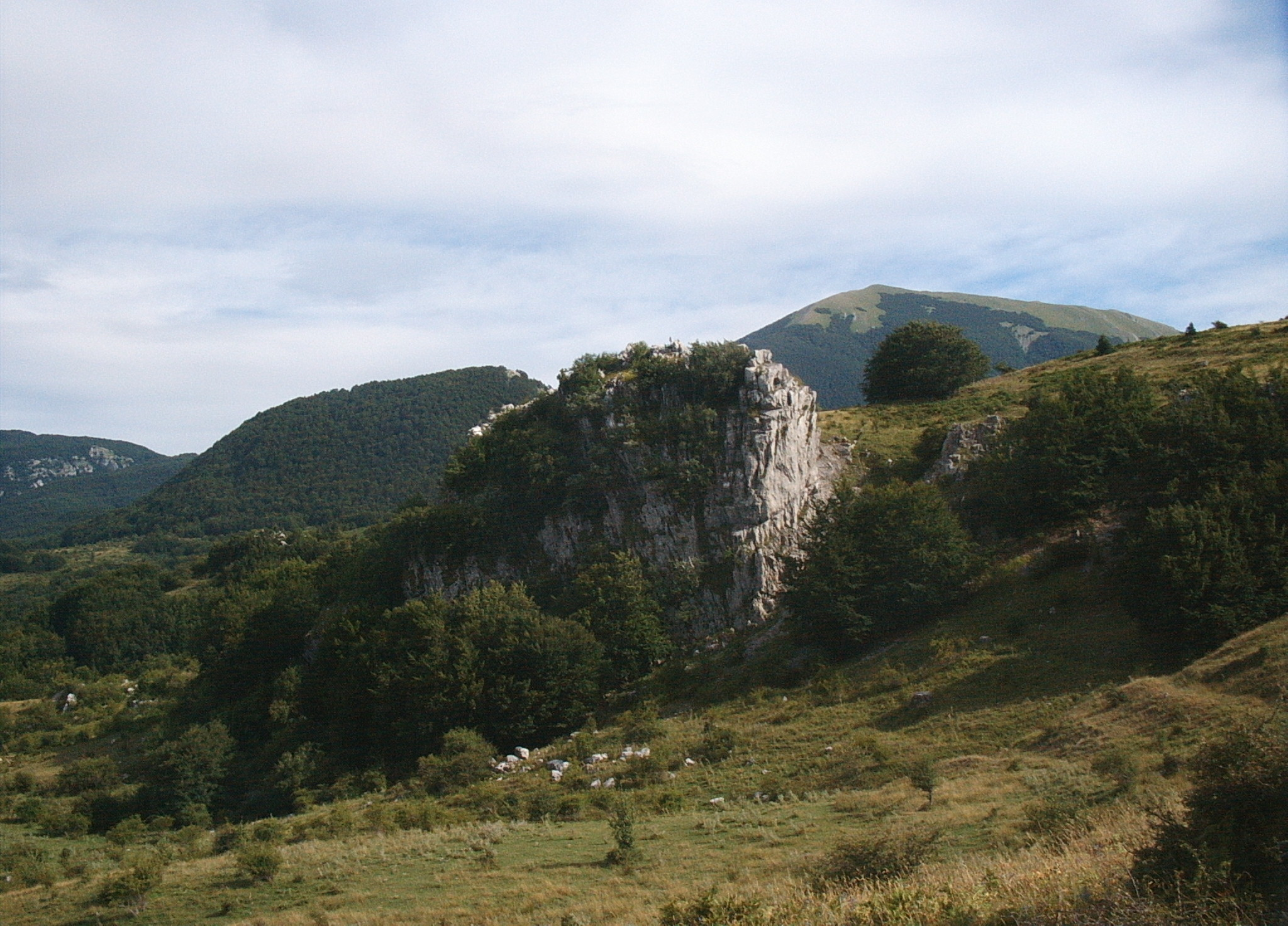 Pollino National Park. Released under GFDL by its author Vinc81.